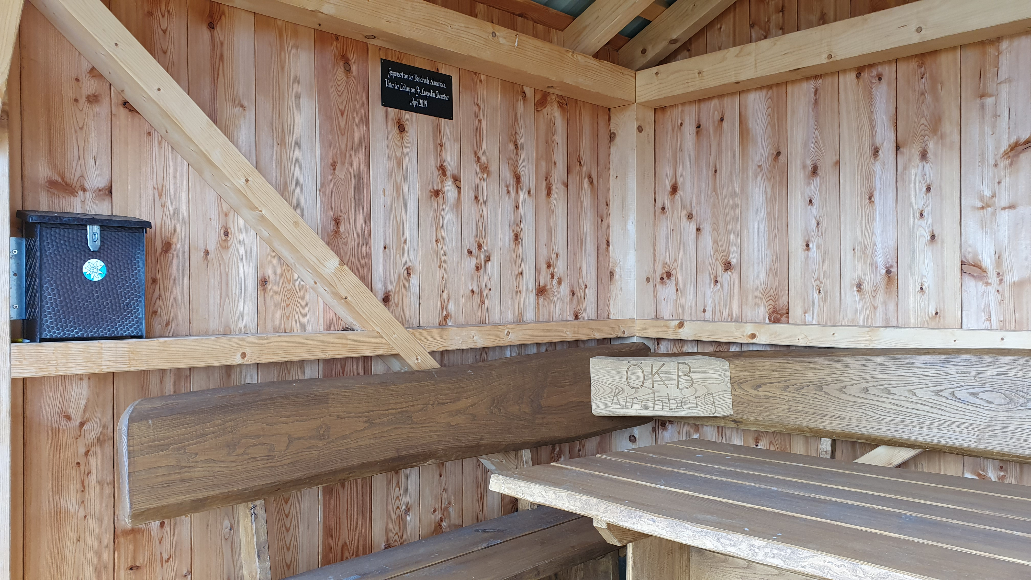 Wooden hut at Bichlberg, Kirchberg an der Pielach, Austria